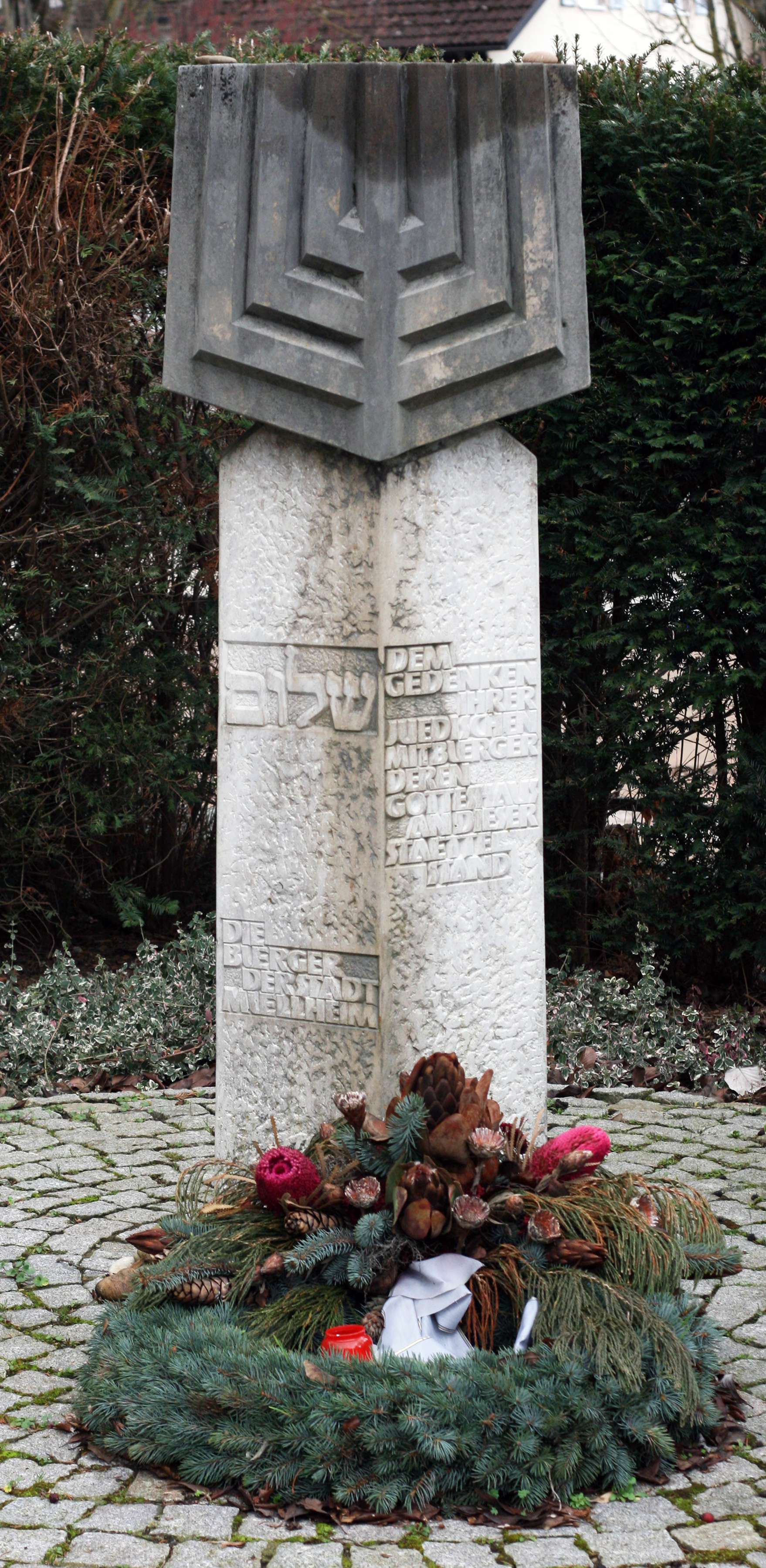 Memorial stele at the place where the old synagogue Müllheim was located